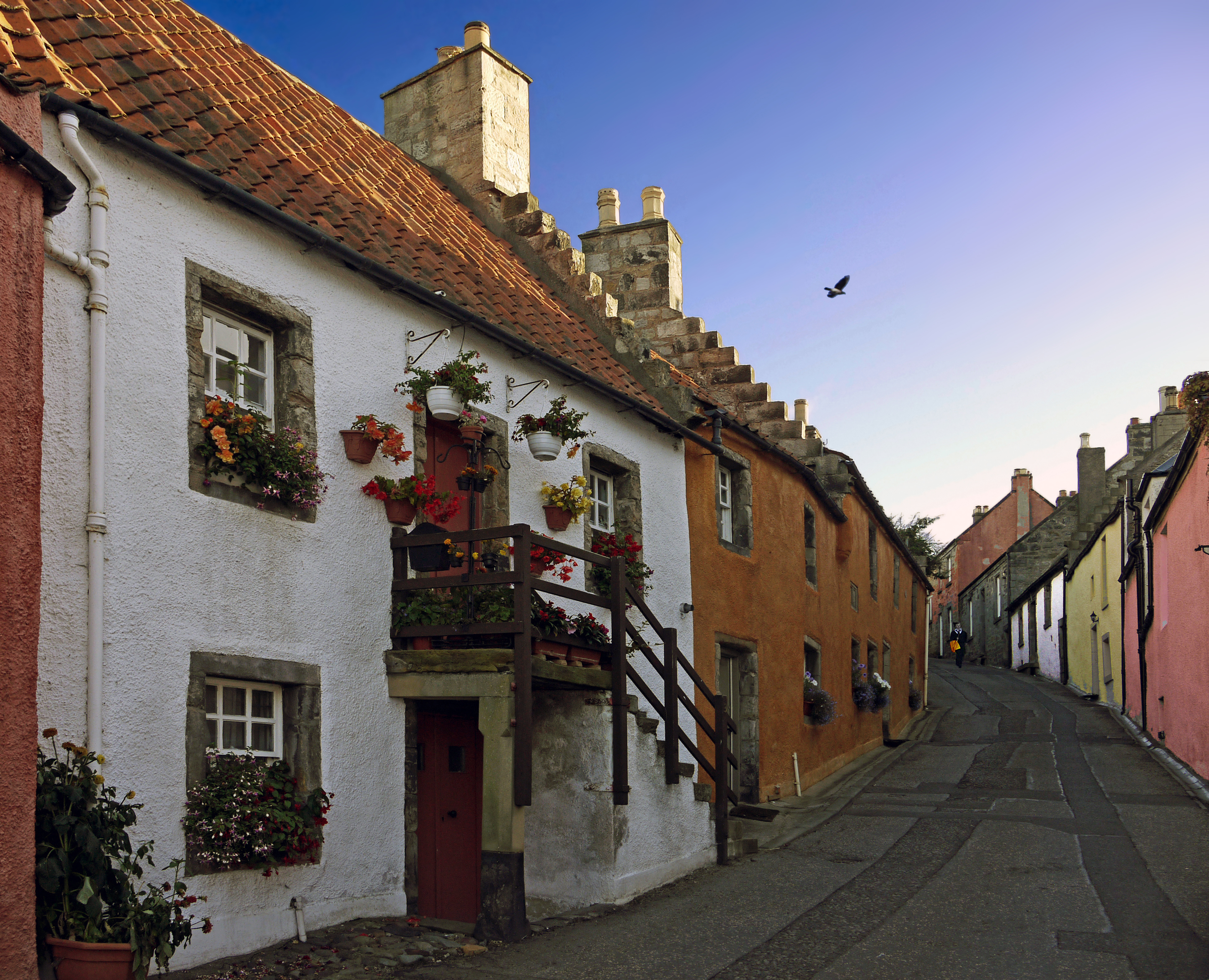 Street in Culross, Fife, Scotland